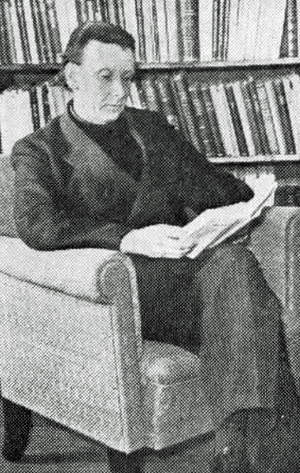 Finnish priest Olavi Kares in early 1960s